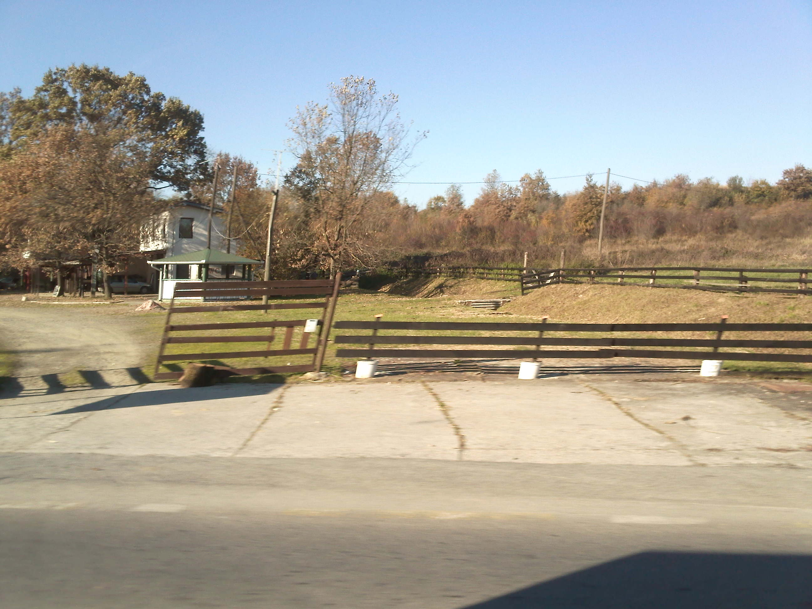 Martin, Croatia